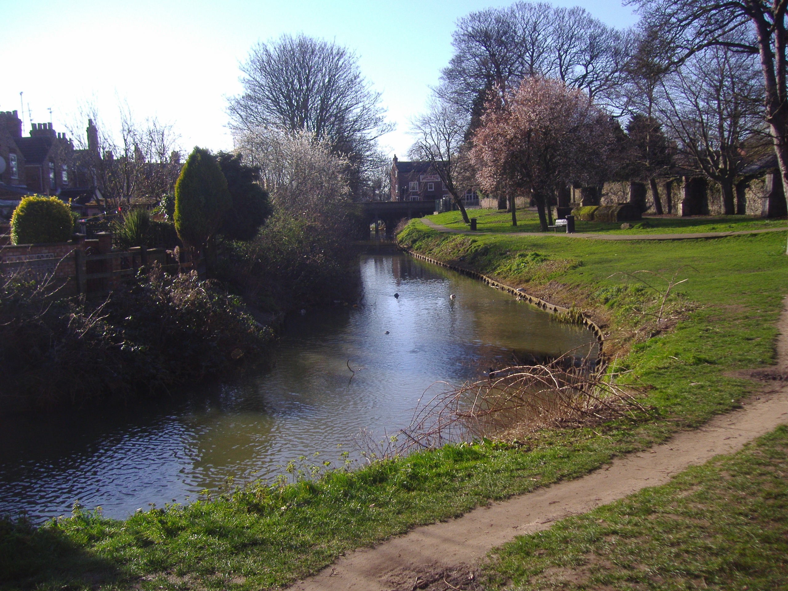 A Digital photograph of the River Gaywood in Kings Lynn 12/3/2007.